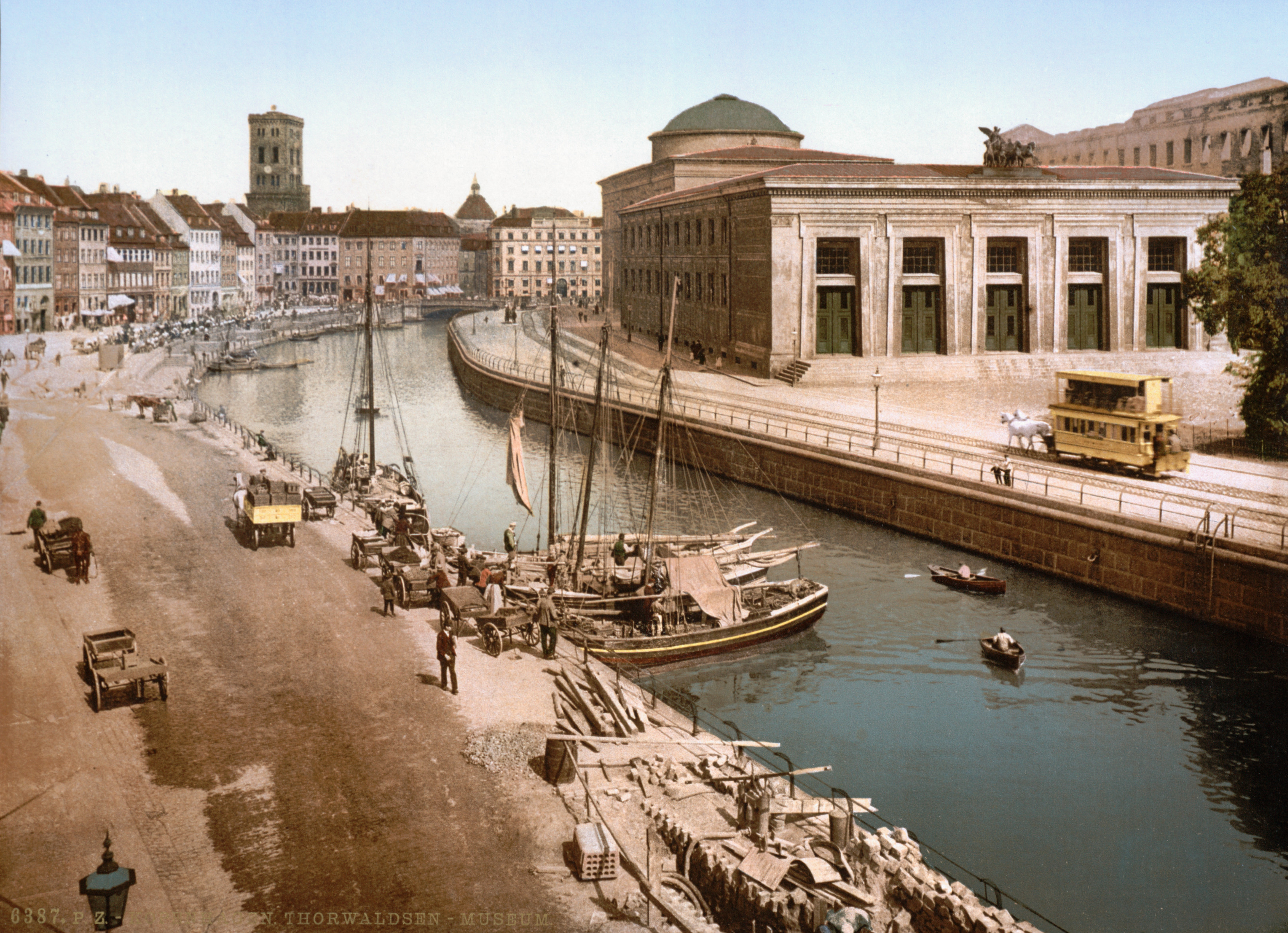 Thorwaldsen Museum, Copenhagen, Denmark between ca. 1890 and ca. 1900. 1 photomechanical print : photochrom, color. Notes: Title from the Detroit Publishing Co., catalogue J, foreign section. Detroit, Mich. : Detroit Publishing Company, c1905. Print no. 6387. Forms part of: Views of architecture and other sites in Copenhagen, Denmark in the Photochrom print collection. Subjects: Denmark--Copenhagen. Format: Photochrom prints--Color--1890-1900. Repository: Library of Congress, Prints and Photographs Division, Washington, D.C. 20540 USA, Part Of: Views of architecture and other sites in Copenhagen, Denmark (DLC) 2001697980 More information about the Photochrom Print Collection is available at Persistent URL: Call Number: LOT 13421, no. 005 [item]